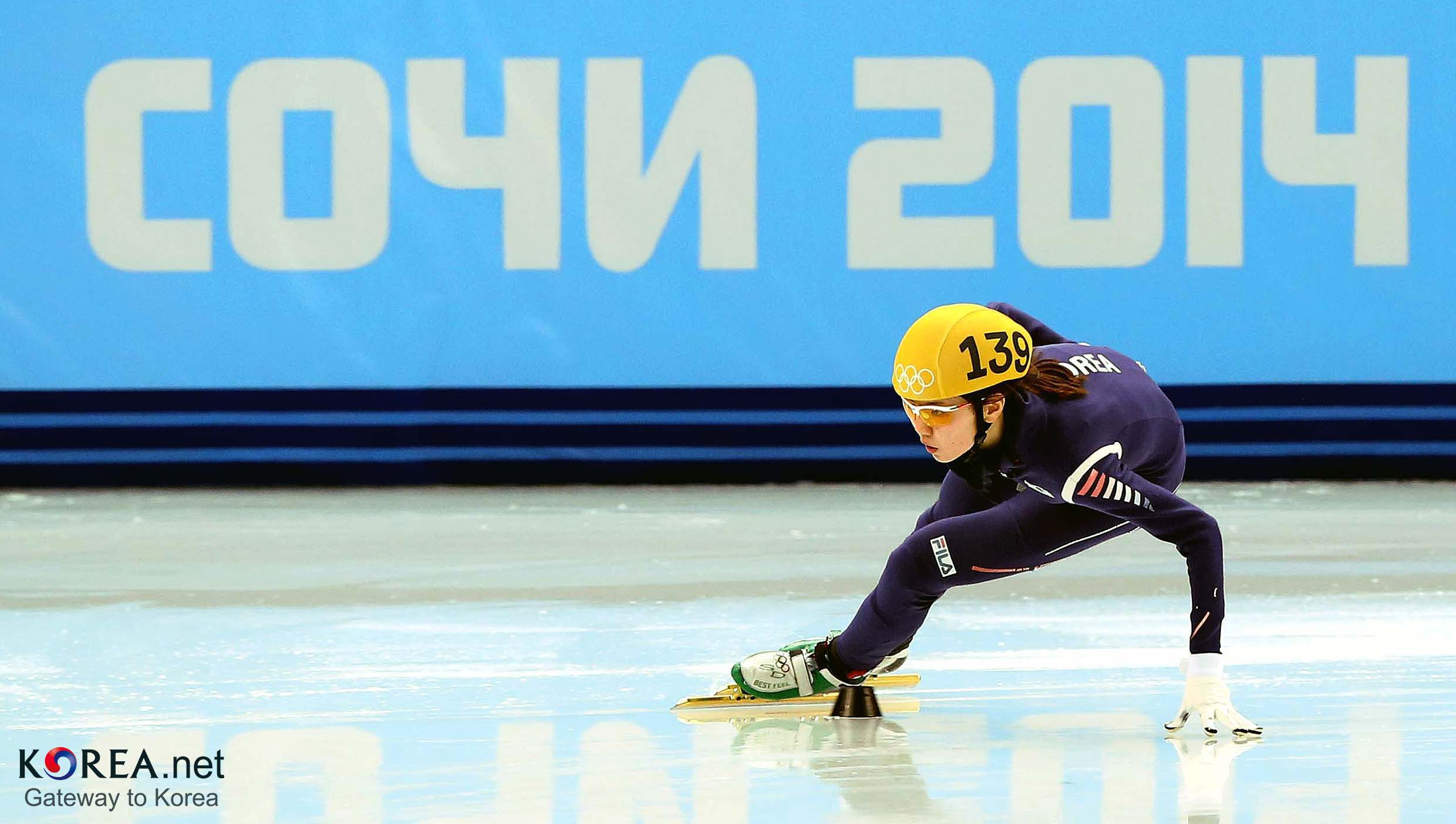 Shim Suk-hee won her first Olympic Medal in Sochi. Iceberg Skating Palace, Sochi, Russia